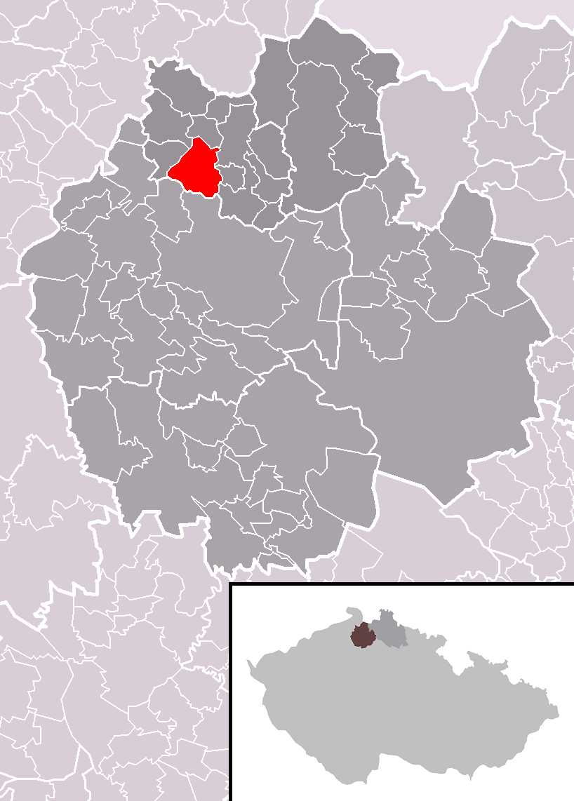 Location of Skalice u České Lípy municipality within Česká Lípa District and administrative area of Nový Bor as a Municipality with Extended Competence.